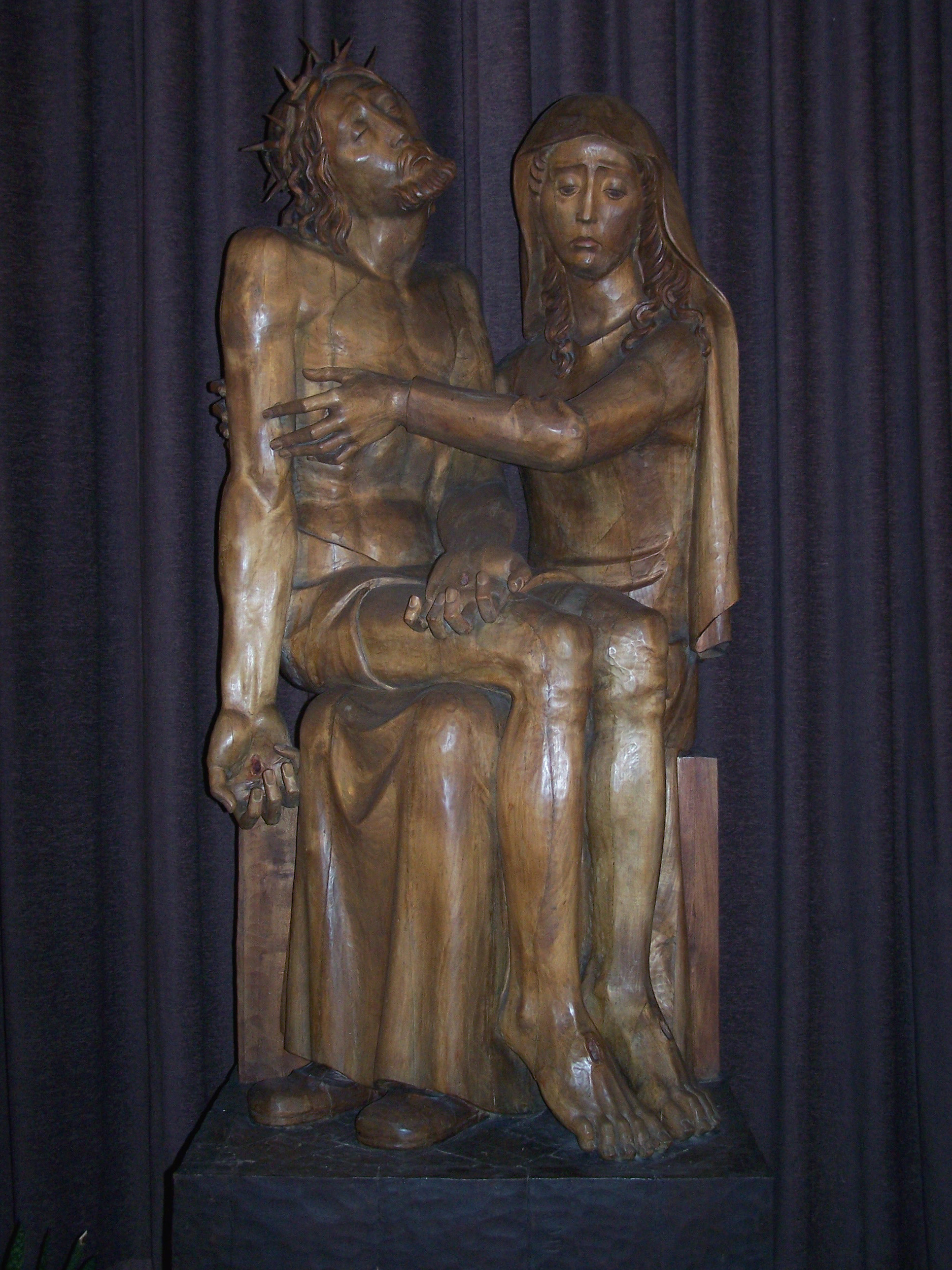 Wooden Pietà from sculptor Arnold Hensler in the Holy Cross Church in Frankfurt am Main-Bornheim